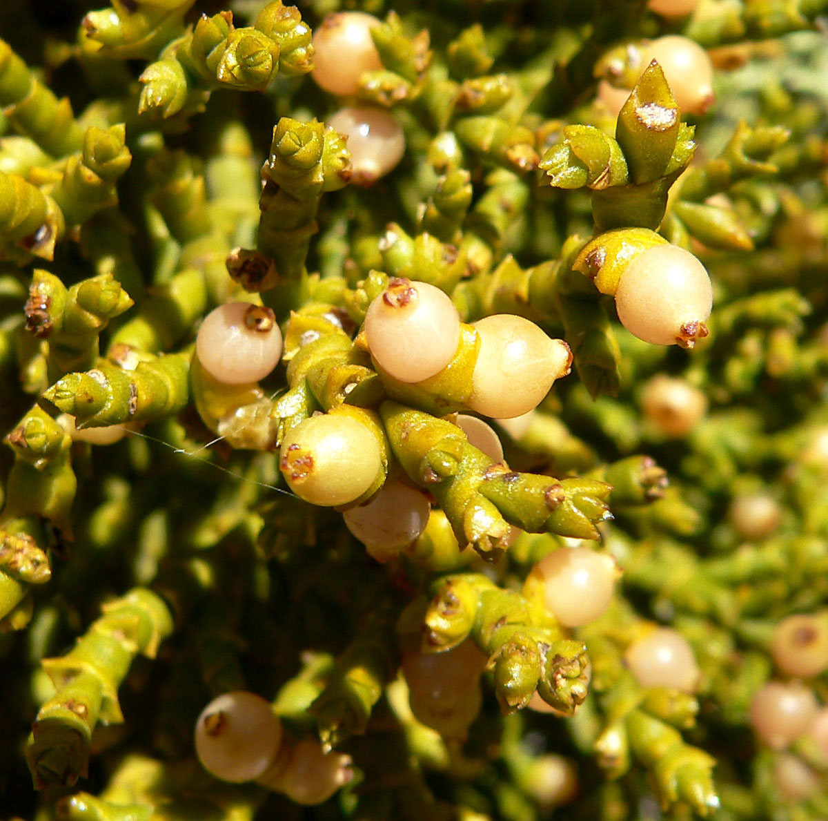 Phoradendron juniperinum just northwest of Mountain Springs, Spring Mountains, southern Nevada (elev. about 1700 m)